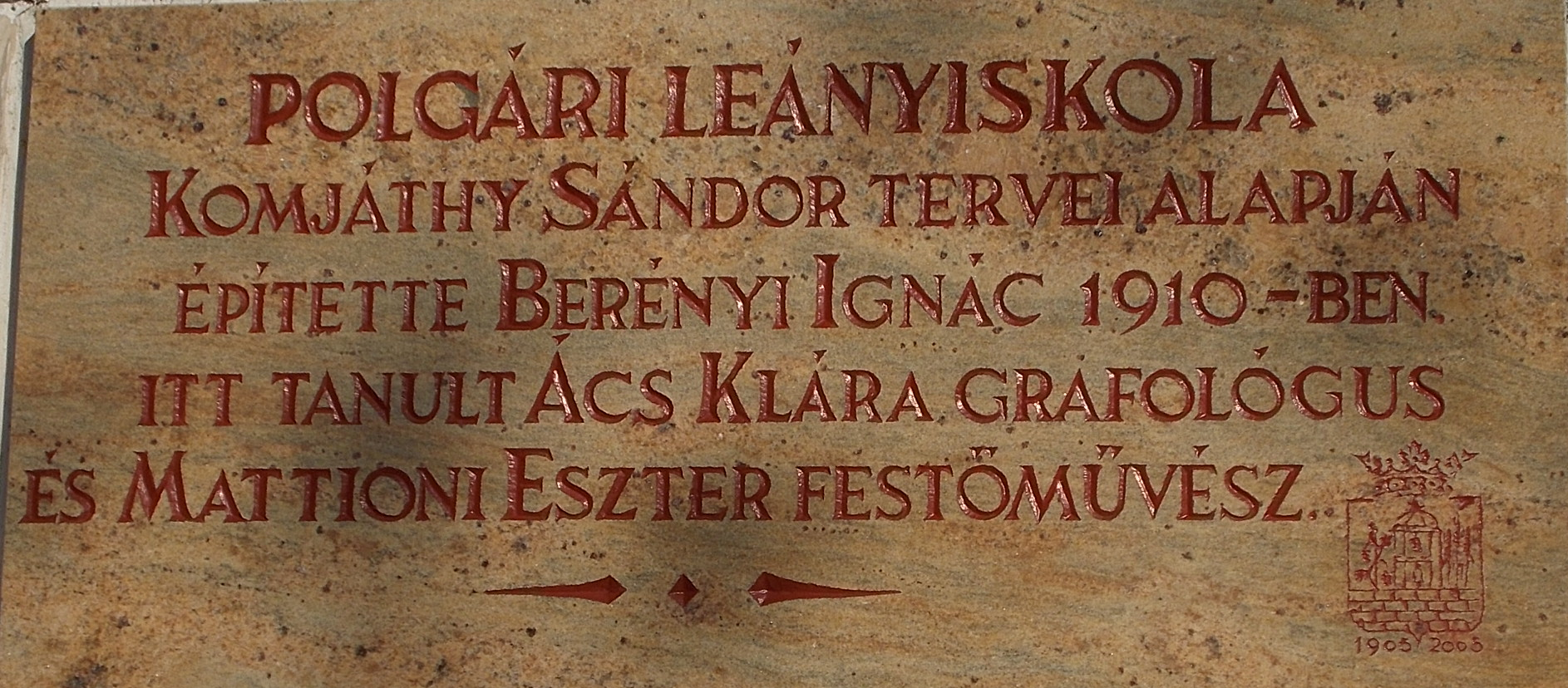 St. Ladislaus School, Acs-Mattioni plaque. - Széchenyi St., Szekszárd, Tolna County, Hungary.